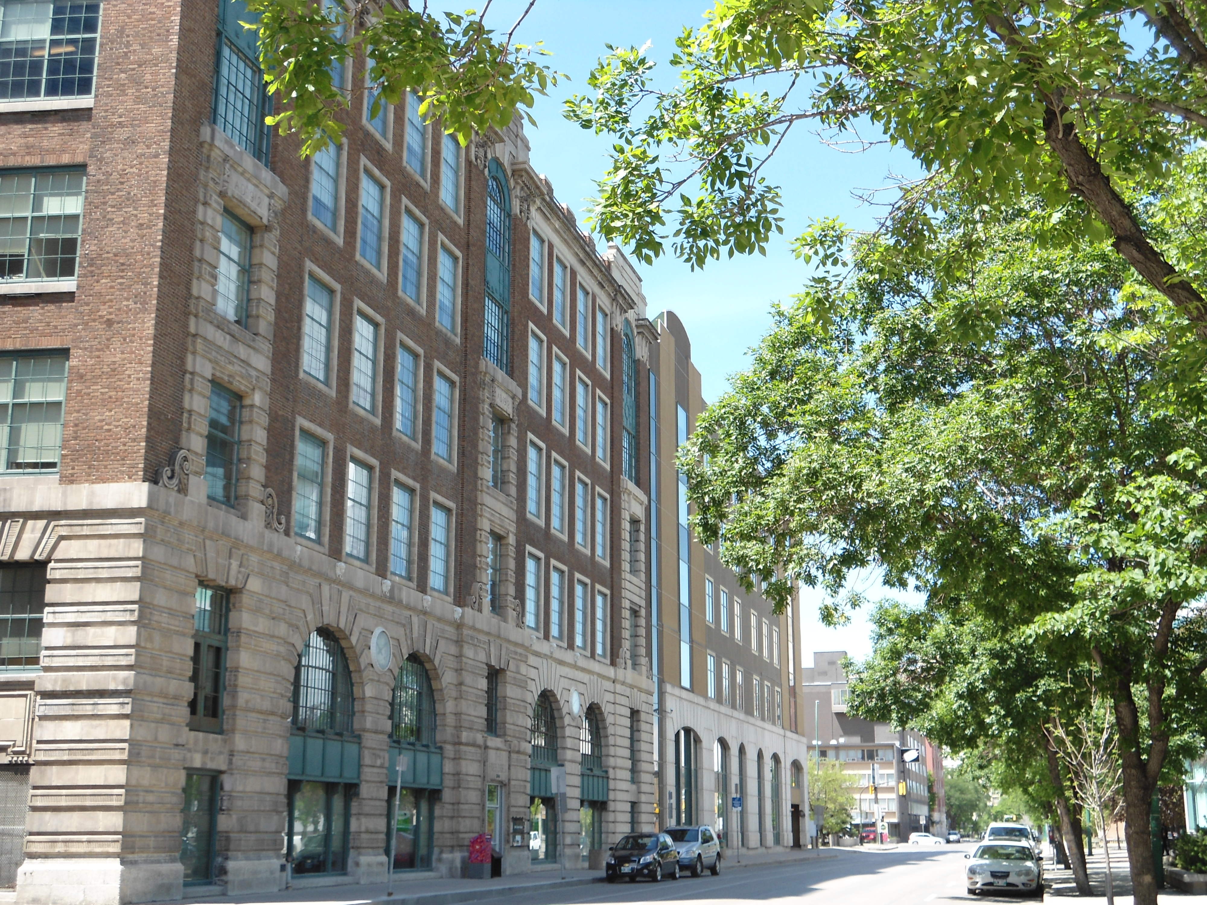 The building which houses the Winnipeg Free Press